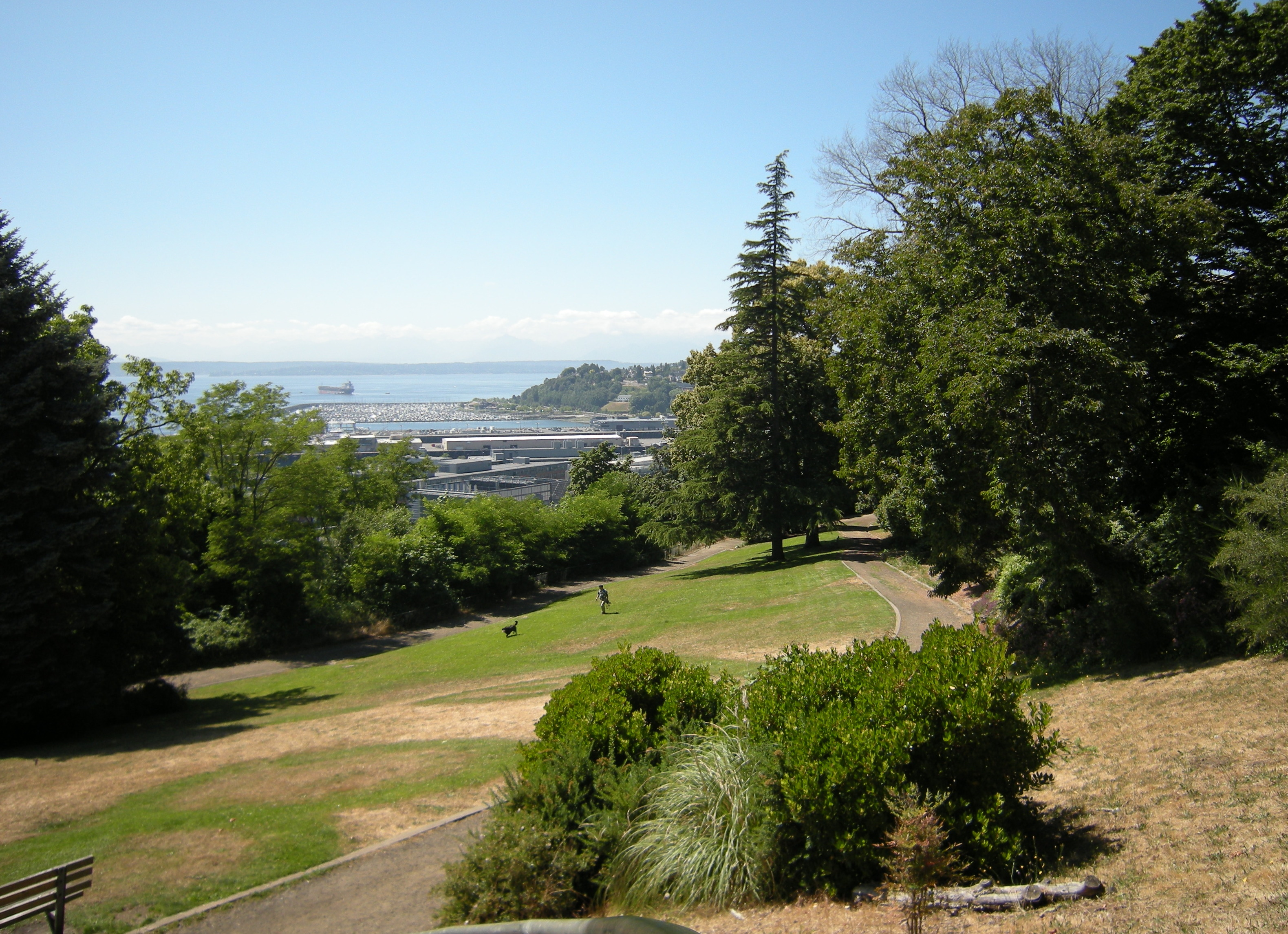 Smith Cove seen from Kinnear Park on Queen Anne Hill, Seattle, Washington. The park is an official city landmark.